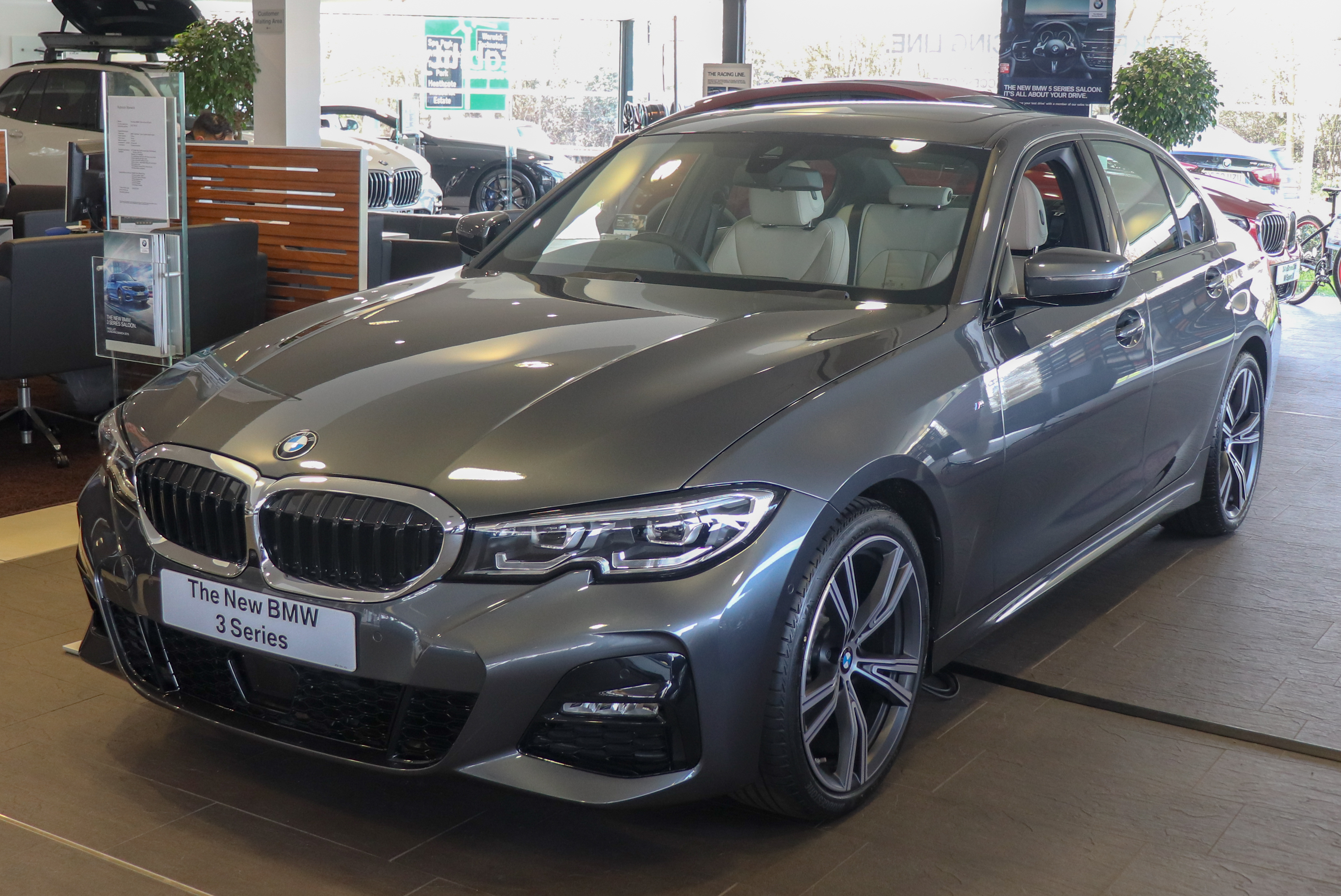 2019 BMW 320d xDrive M Sport 2.0 Front Taken in Leamington Spa